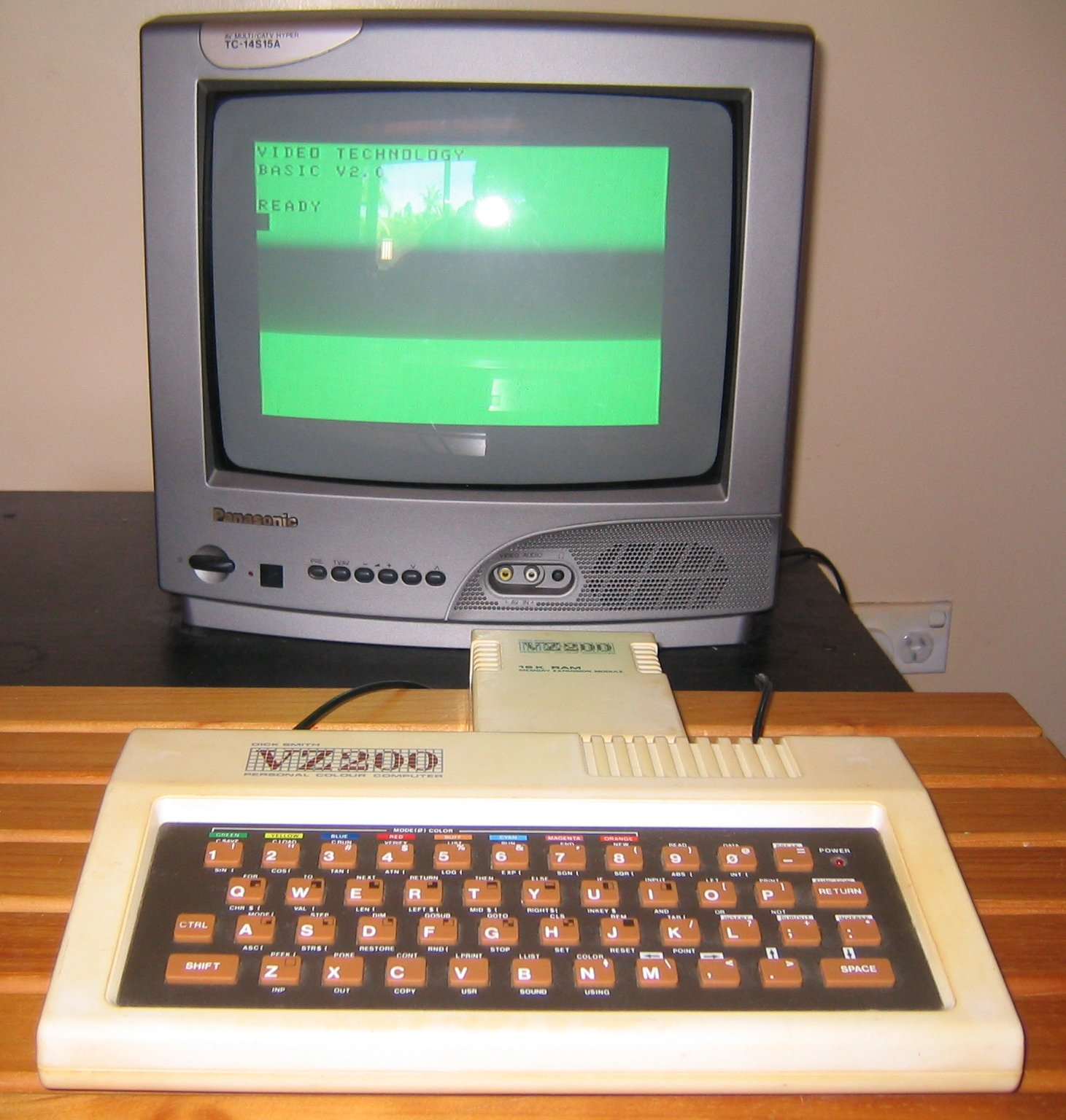 A VZ-200 computer, as sold by Dick Smith in Australia. In this picture the computer is operating. A television is being used as a display and a 16k RAM expansion is plugged in. The computer has just booted and the greeting "VIDEO TECHNOLOGY BASIC V2.0 READY" is visible on the screen.